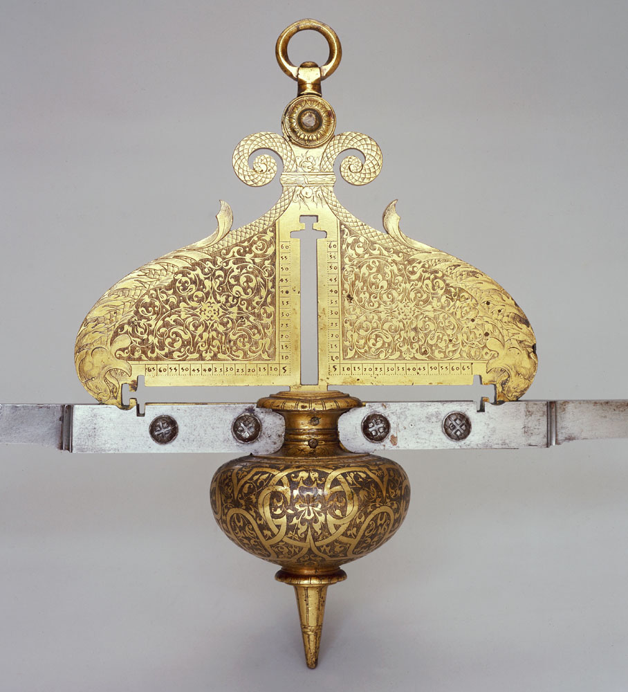 AuthorUnknownDescription